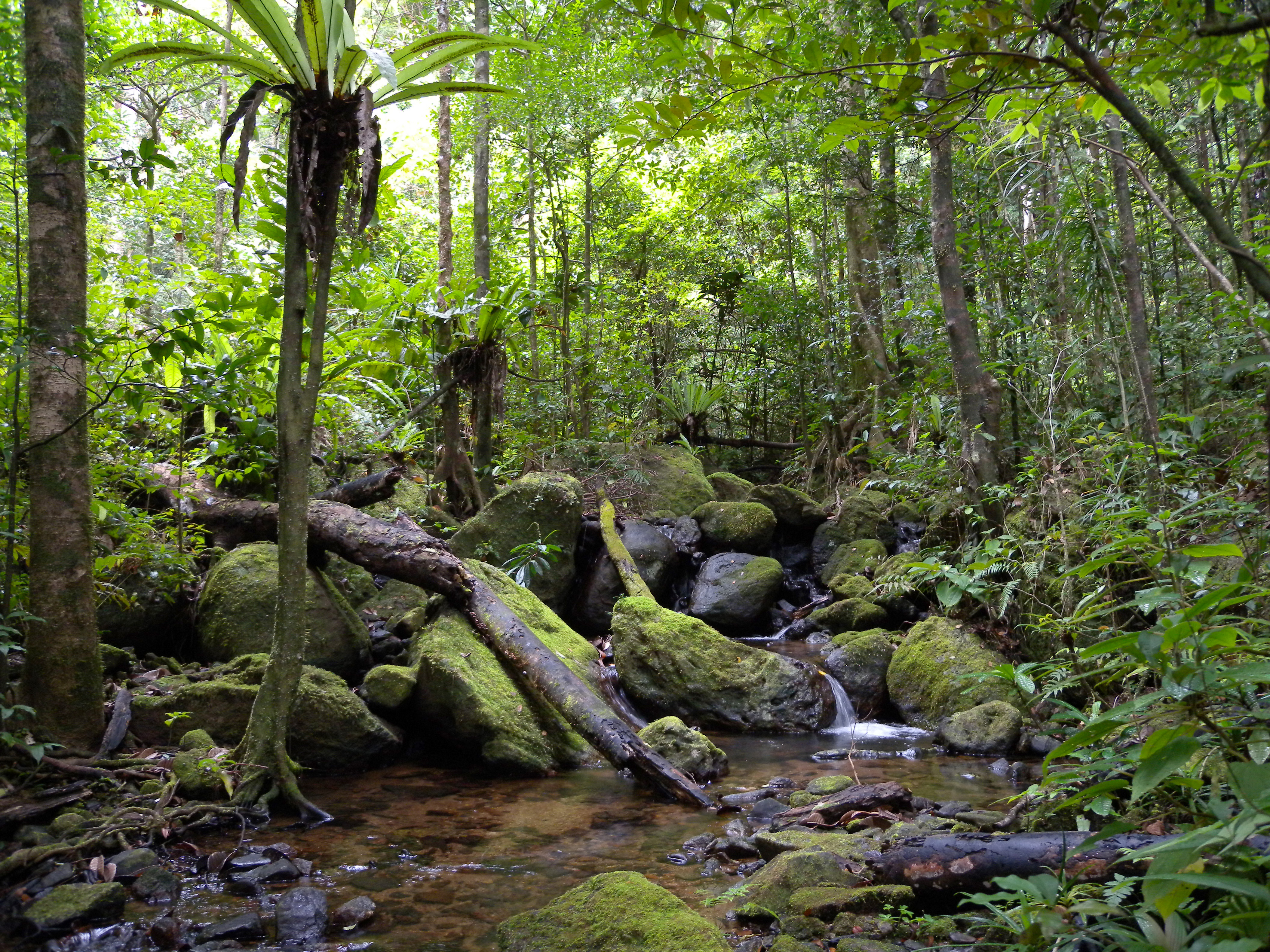 A popular picture, I even found another user having copied it